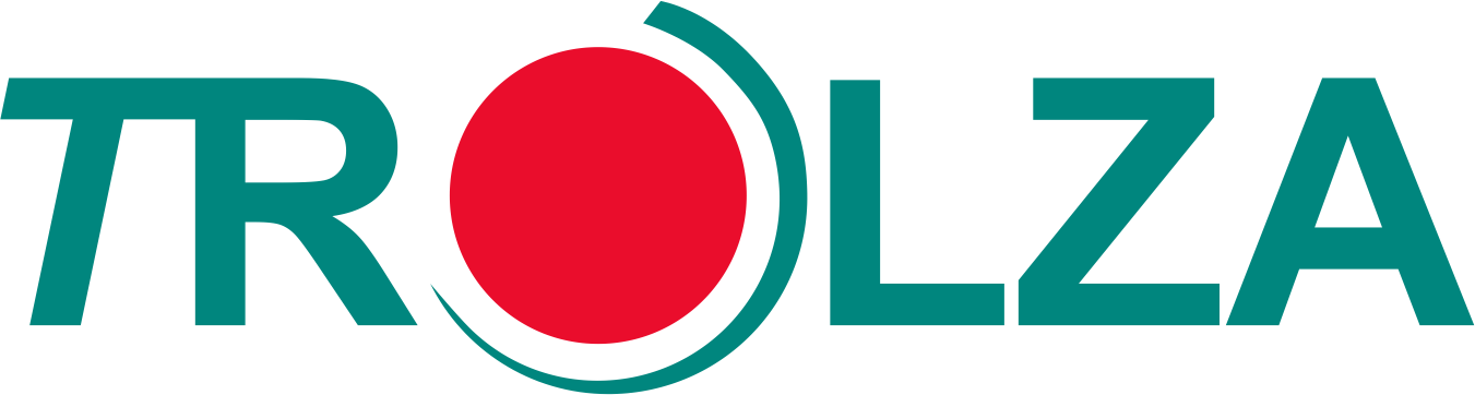 It is a new logo of Trolza company.